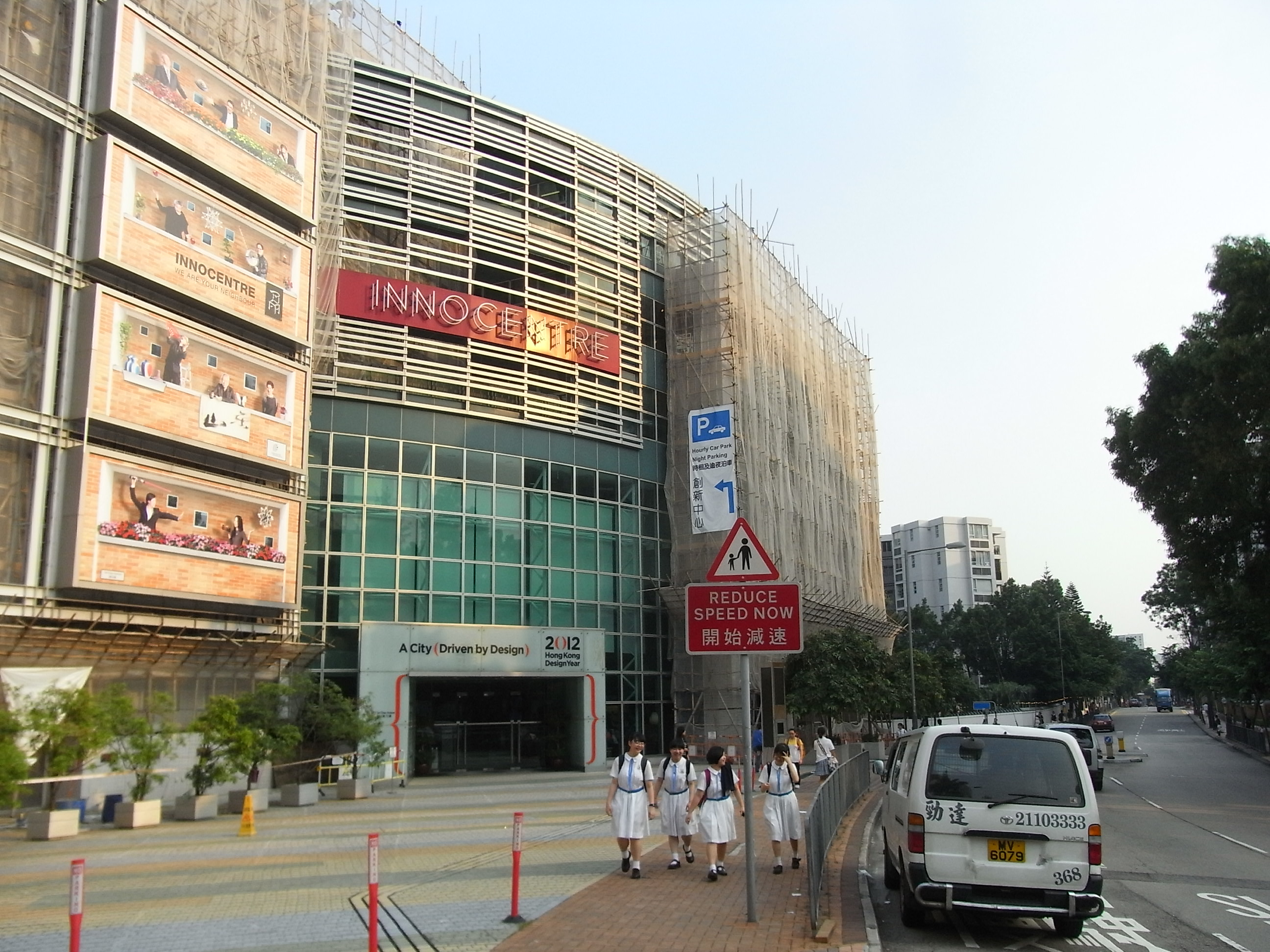 九龍塘 創新中心, InnoCentre, Tat Chee Avenue, Kowloon Tong, Hong Kong